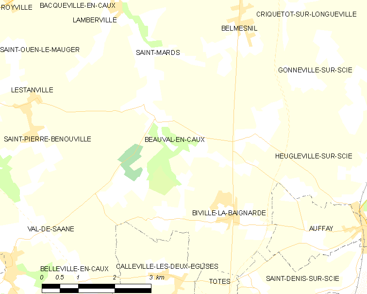 Map of French municipality Beauval-en-Caux